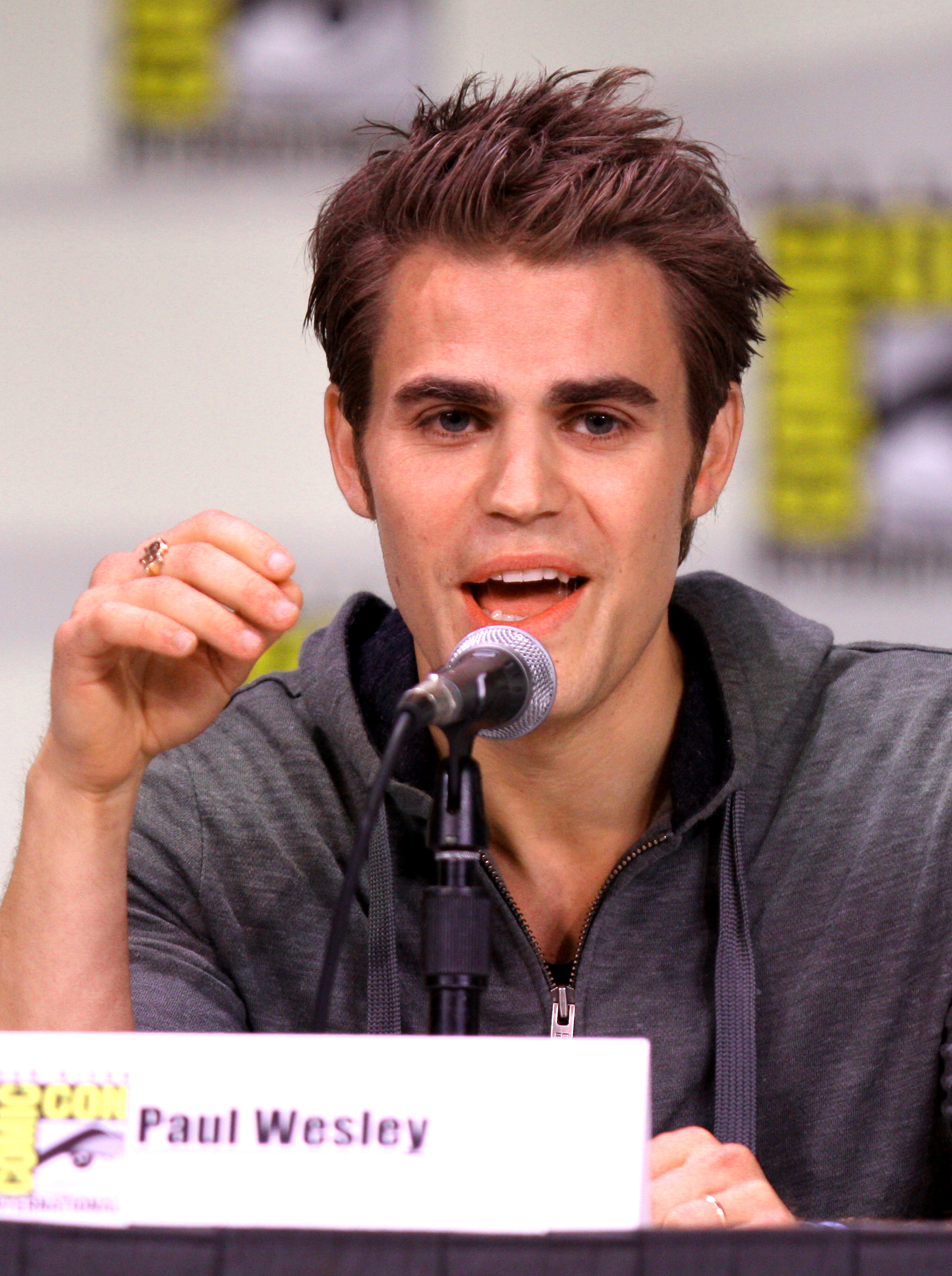 Paul Wesley at the 2011 Comic Con in San Diego